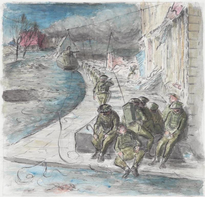 Ardizzone recorded this visit to Bremen in his diary on 26 April 1945: 'To Bremen again with Brian de Grineau. The city a dead one - ruins everywhere, a drunken Dutchman reeling down the street...Little groups of freed people and, further towards the dock area, soldiers and tanks.' An ink sketch relating to this work is found under this diary entry (IWM LD 7580 [C]). image: A street scene showing a group of British soldiers resting at a corner, looking exhausted or injured. In the background a line of soldiers is marching away single- file along the severly bomb-damaged street, with a Sherman tank following behind them.